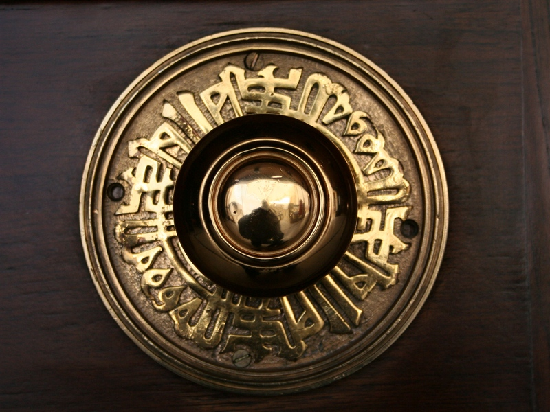 Intricate worksmanship at the Grand Mosque, Kuwait